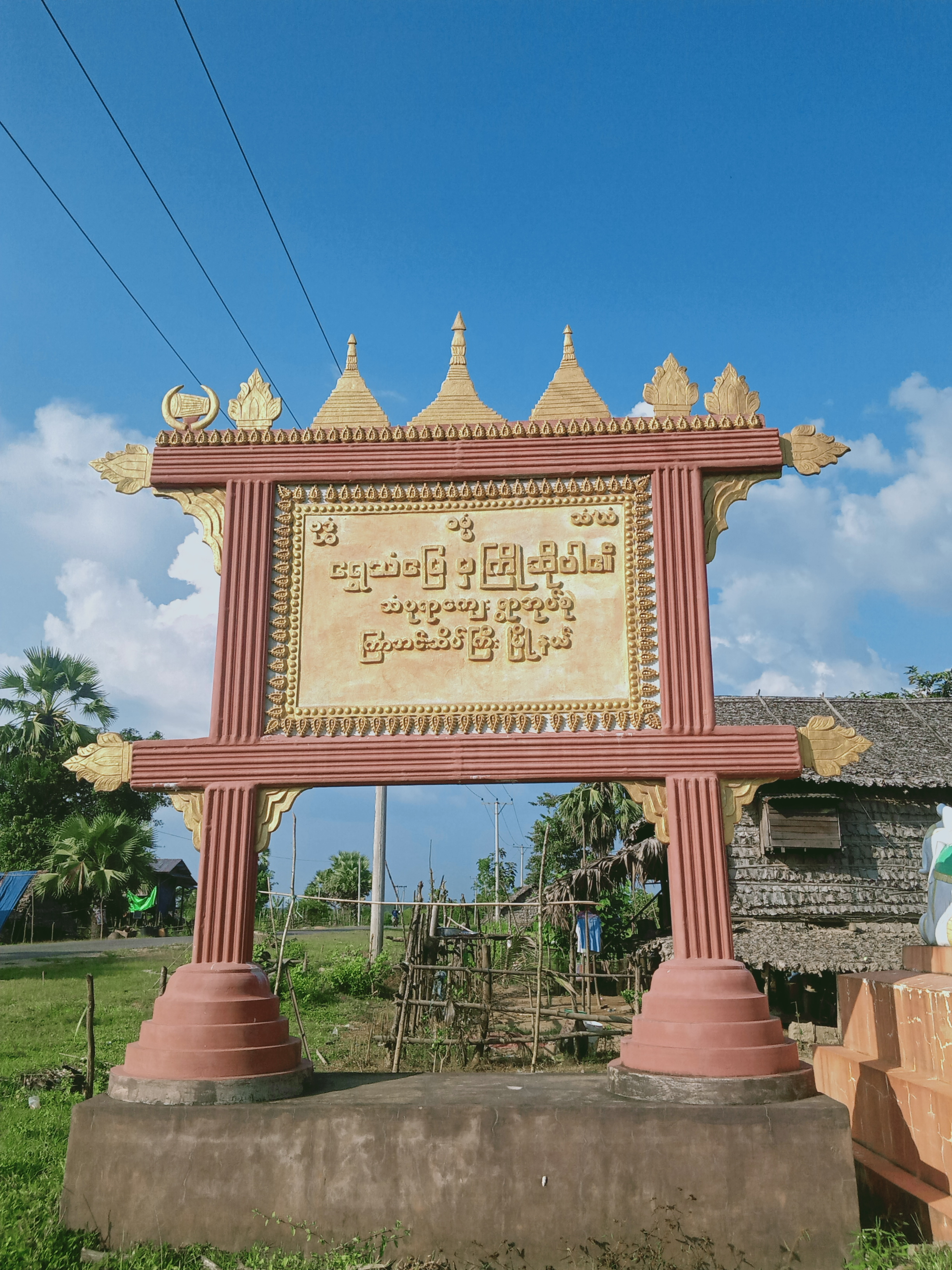 Than Pu Yar welcome signboard